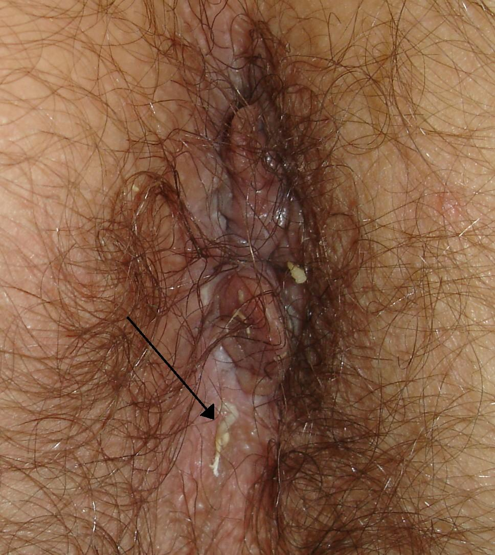 A person who has pinworms as marked by the arrow.